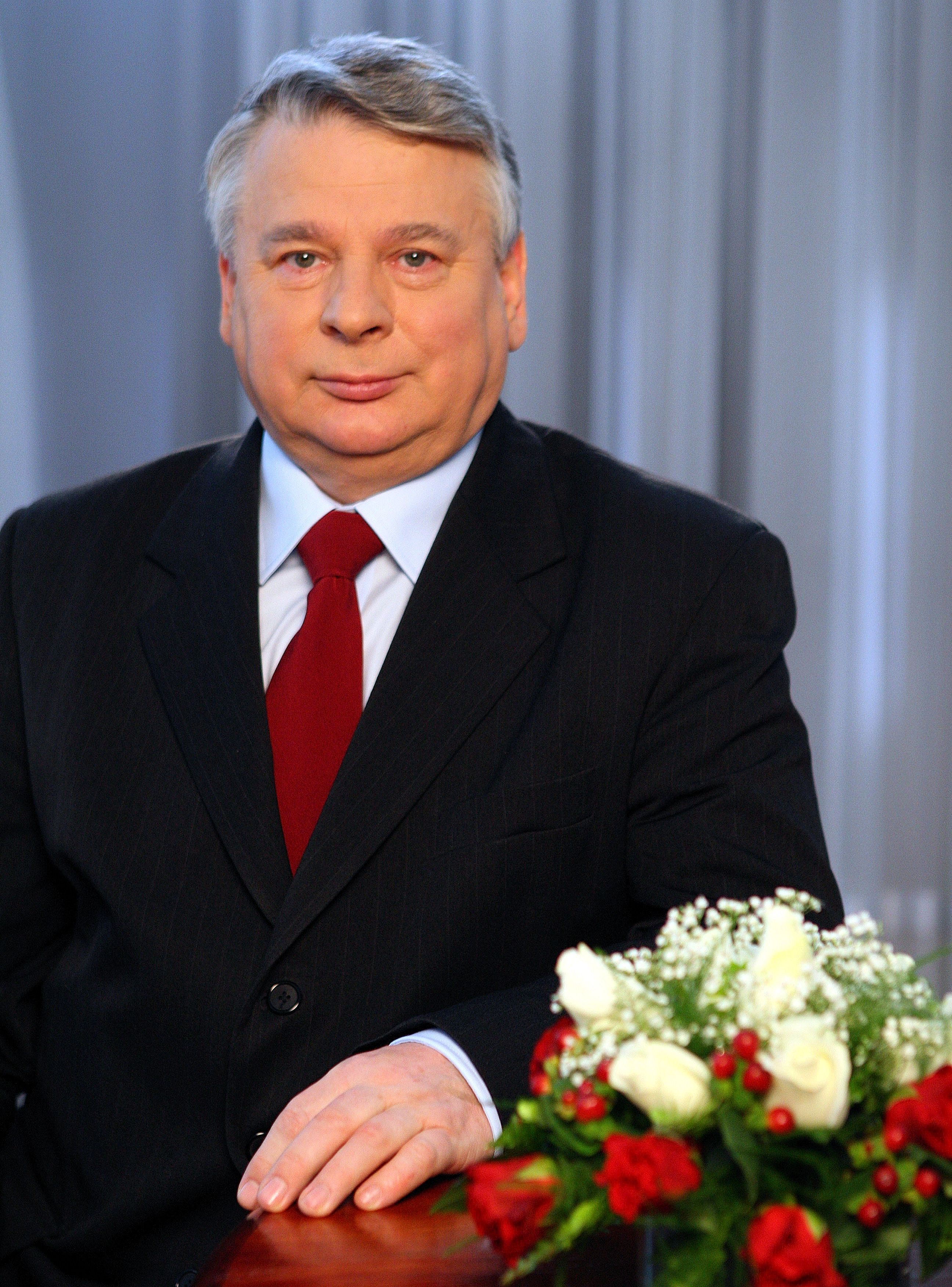 Marshal of the Polish Senate Bogdan Borusewicz